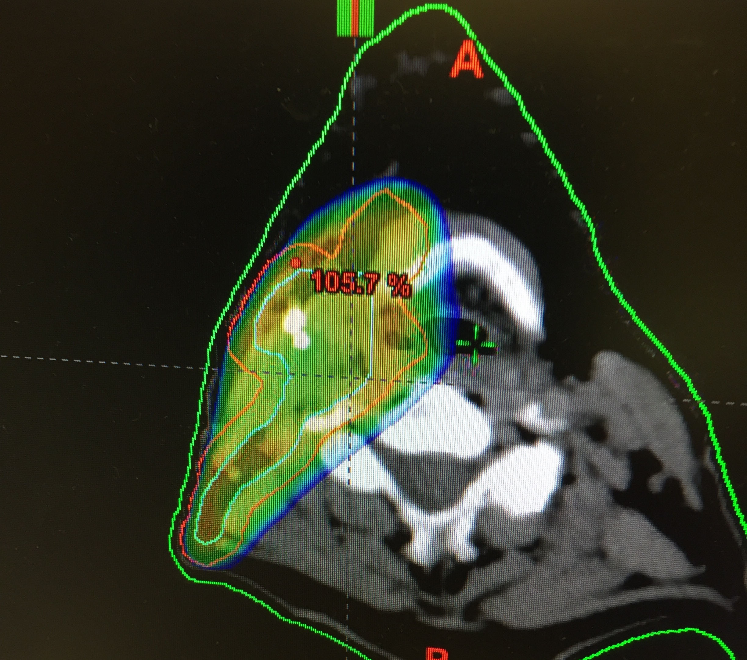 Radiation therapy contours used in treating a right tonsillar cancer